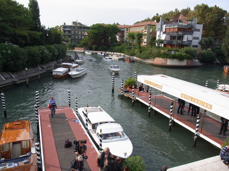 The landing piers for Hotel Excelsior.